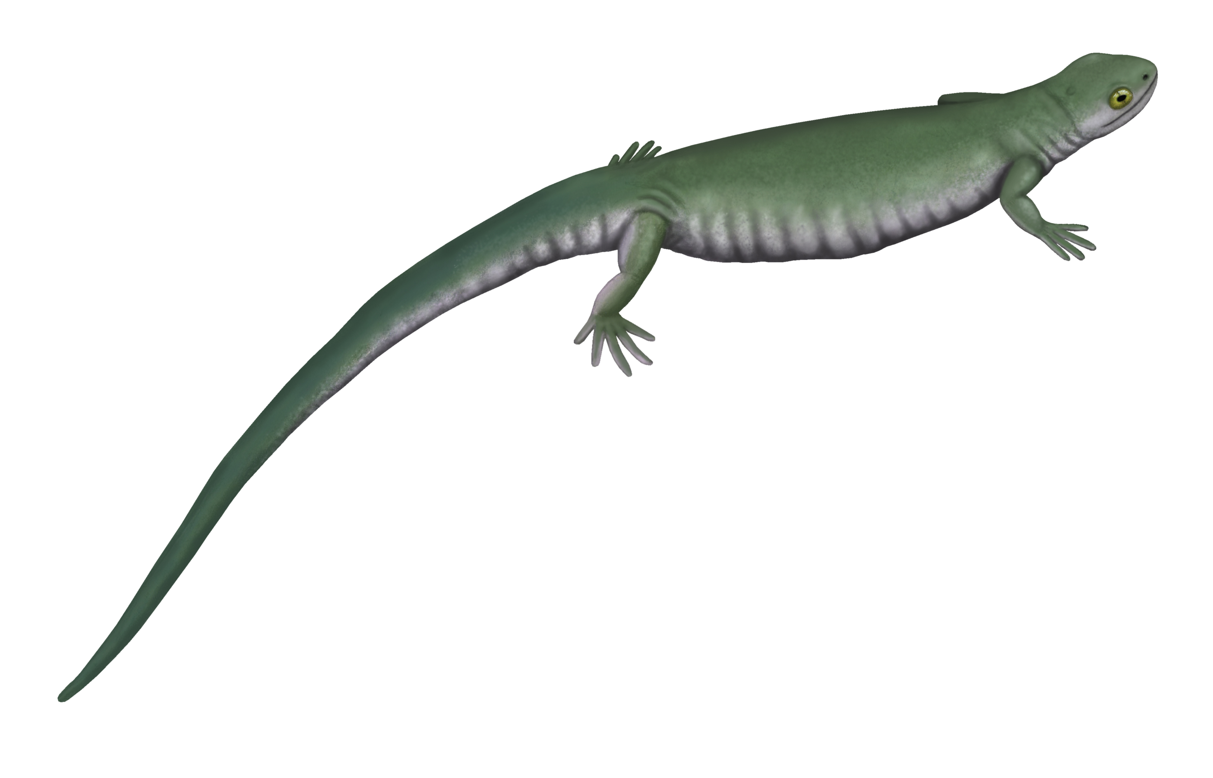 Life restoration of Scincosaurus crassus. Based on this photograph of a fossil and the restoration in Figure 2 of "Plant/Animal interactions of the Upper Carboniferous" (The Botanical Review 49 (3): 259-307), originally from "The tetrapod assemblage of Nyrany, Czechoslovakia" by A.R. Milner (pp. 439-496 in The terrestrial environment and origin of land vertebrates Academic Press, London).